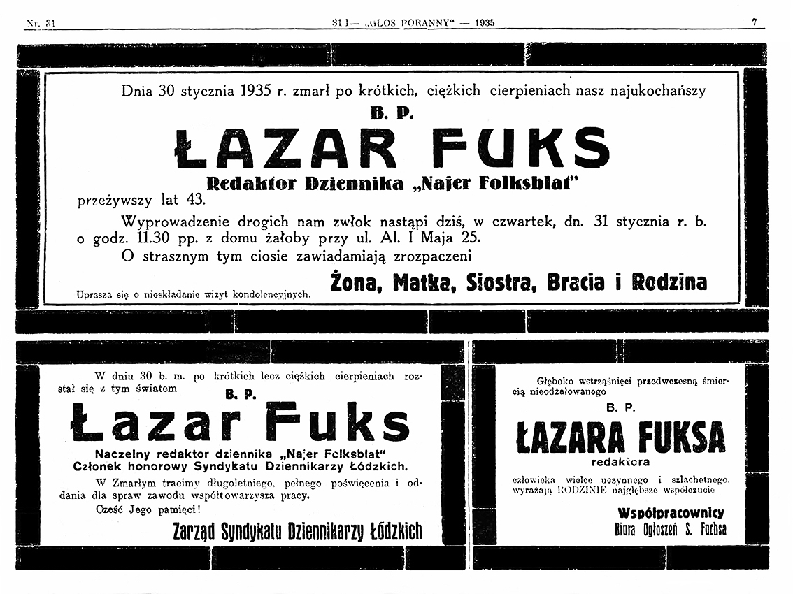 Obituary for Fuks Lazar